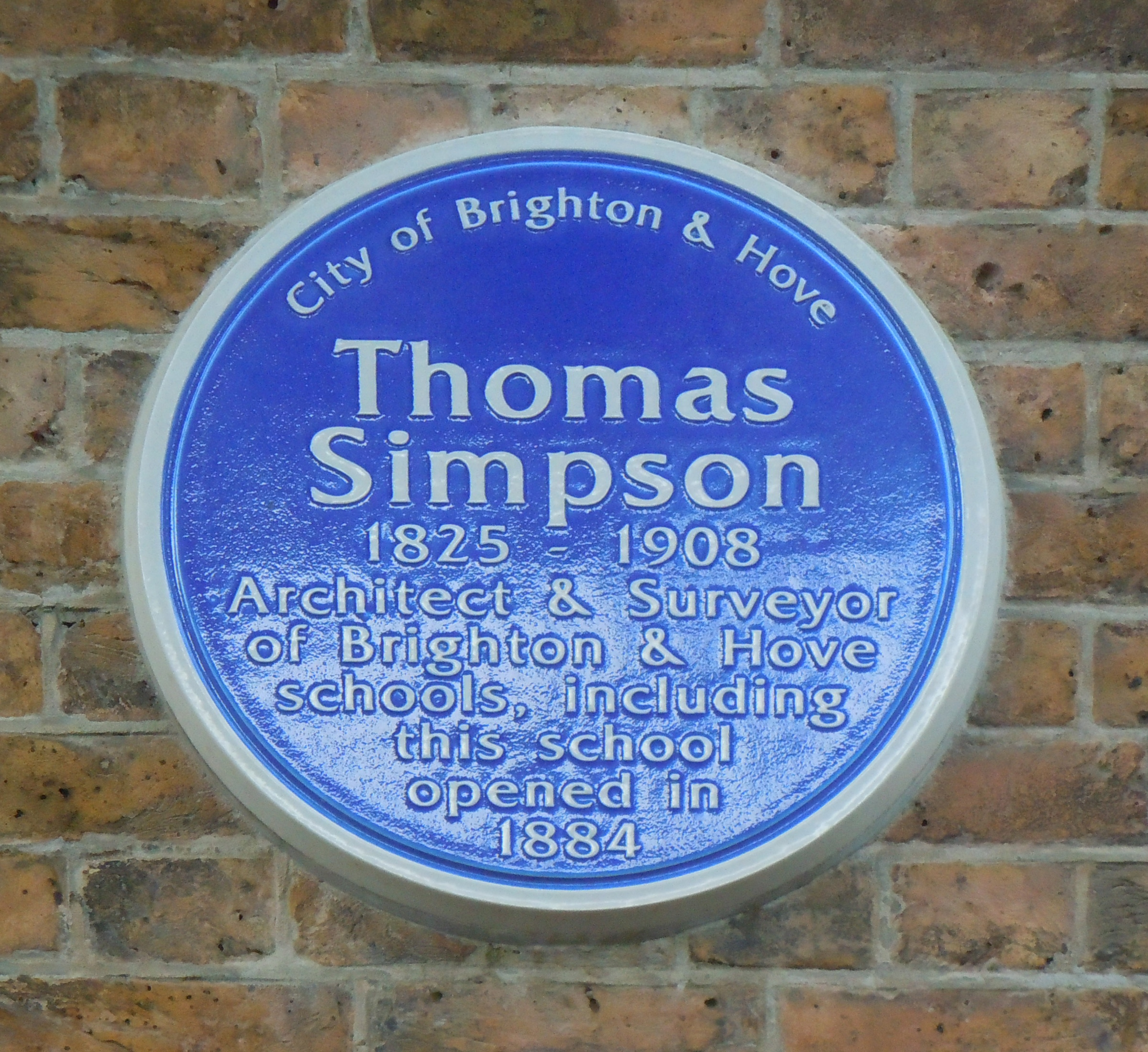 A blue plaque commemorating Thomas Simpson (1825–1908), a Brighton-based Scottish architect whose works included many schools for the Brighton School Board and Hove School Board. The plaque was unveiled on the exterior of the Connaught Road building of West Hove Infants School in Hove in April 2015. Built in 1882 as Connaught Road School, it was a primary school for 100 years, then became an adult education centre, but is now an infant school. It is Grade II-listed.